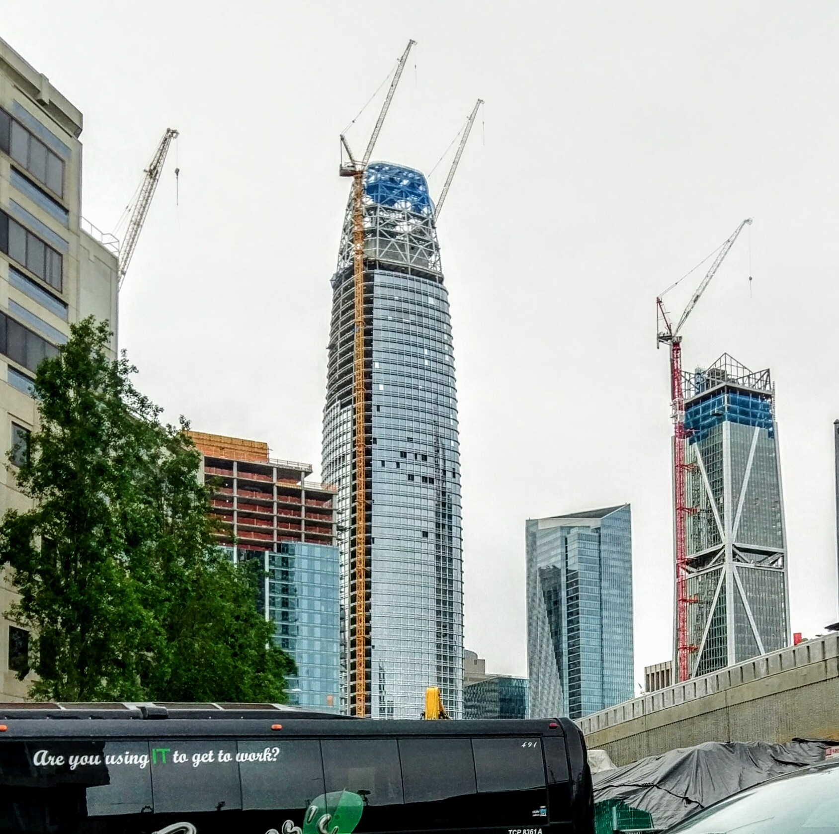 The Salesforce Tower in San Francisco, and surrounding buildings, the day before its topping out ceremony. Photo by Jim Heaphy.